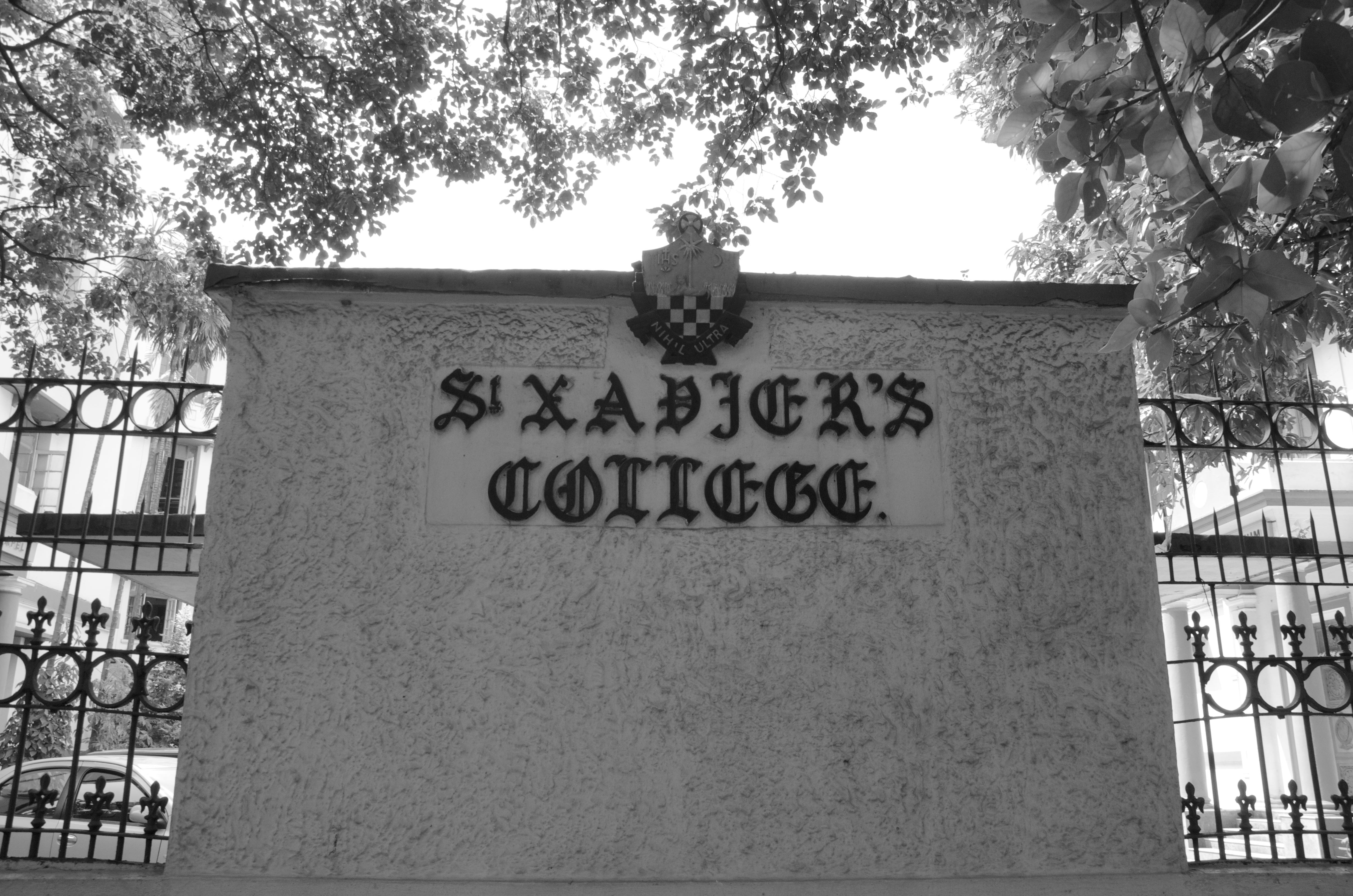 Logo of St.Xaviers College' Kolkata